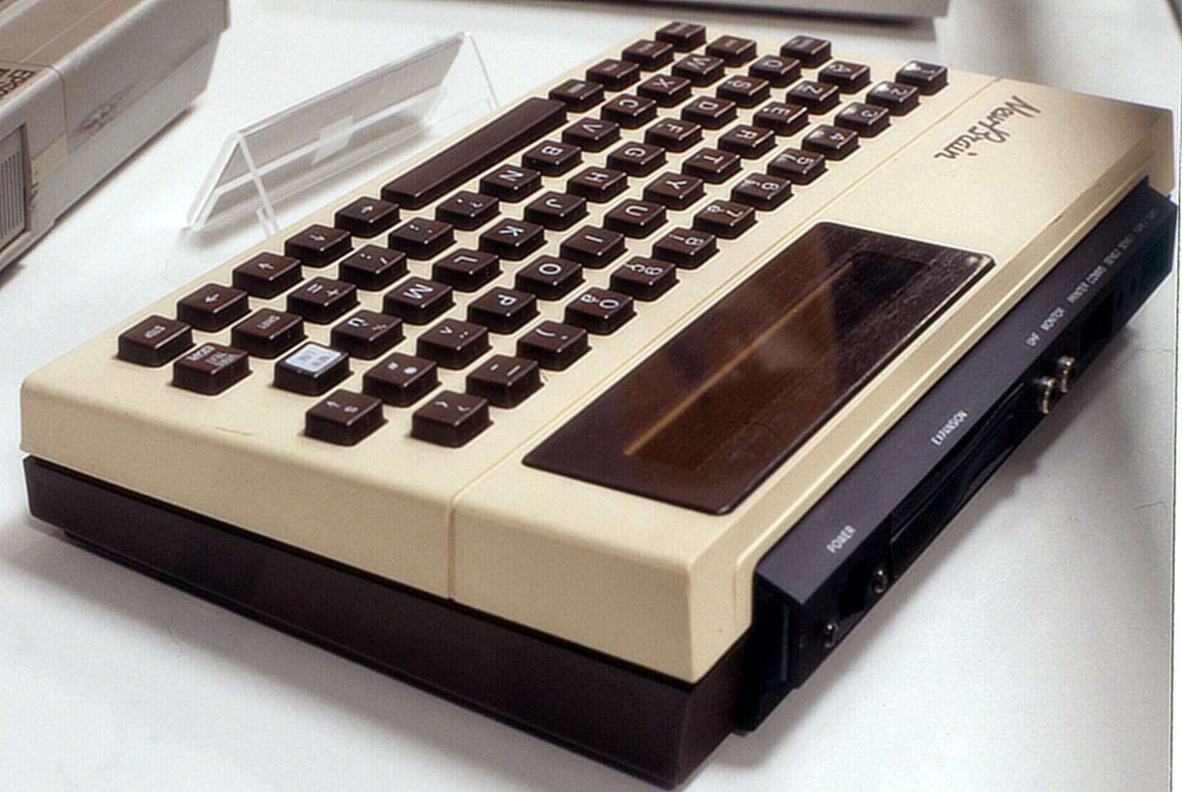 Grundy NewBrain computer.